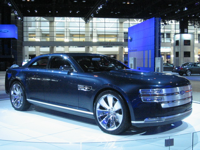 Ford Interceptor at the 2007 Chicago Auto Show.